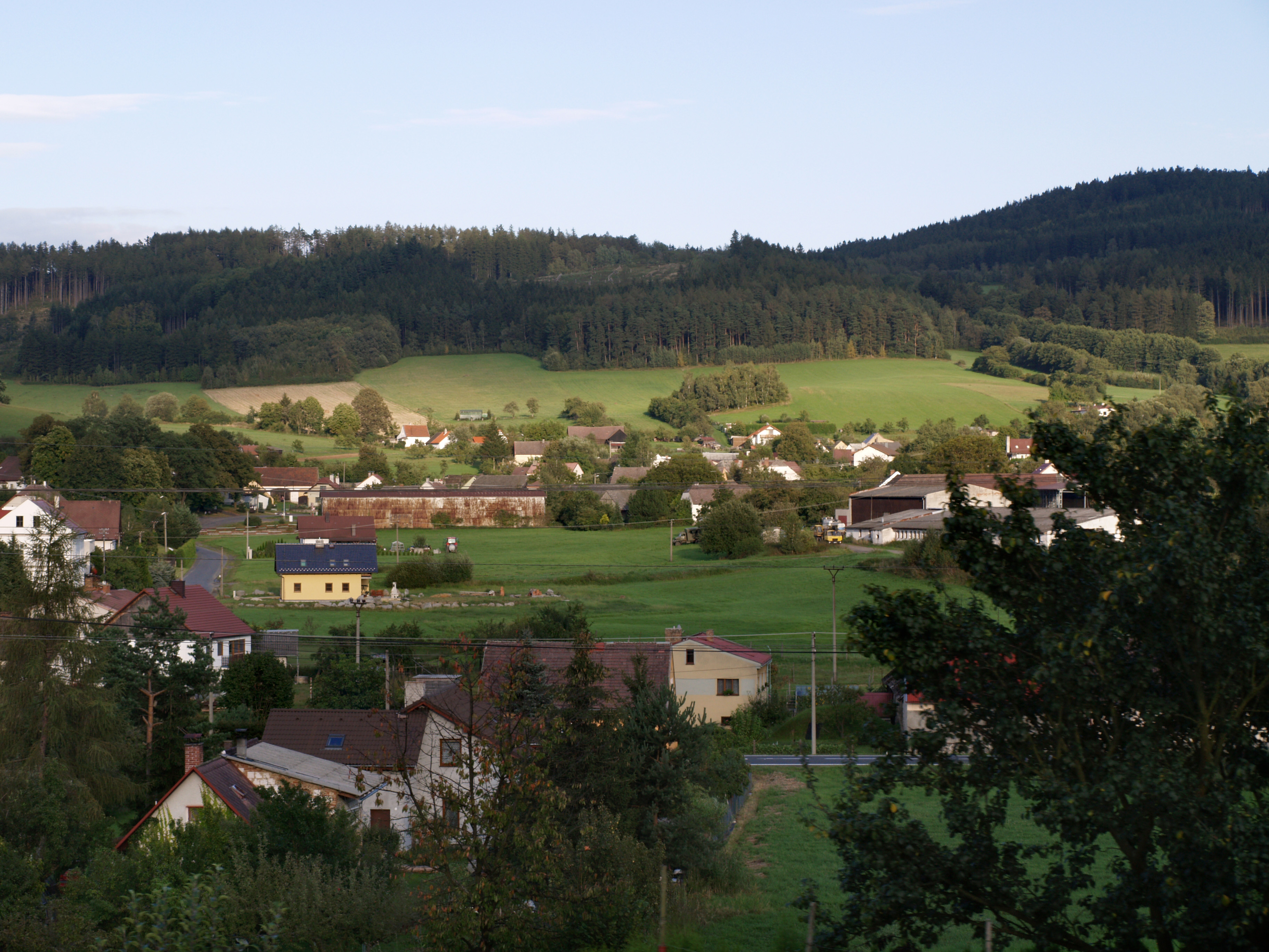 View of Radinovy (part of Vrhaveč)